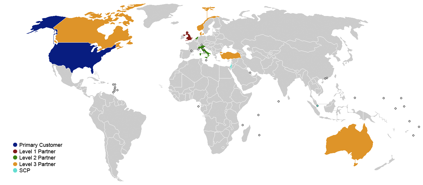 Corrected map showing the potential purchasers of the F-35